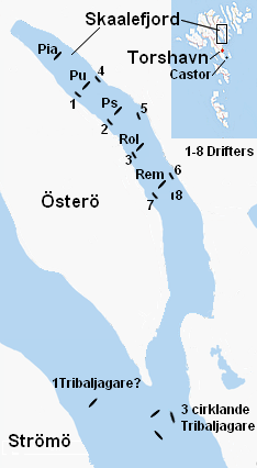 The situation at Skaalefjord, the Faeroes, 20th of June 1940.